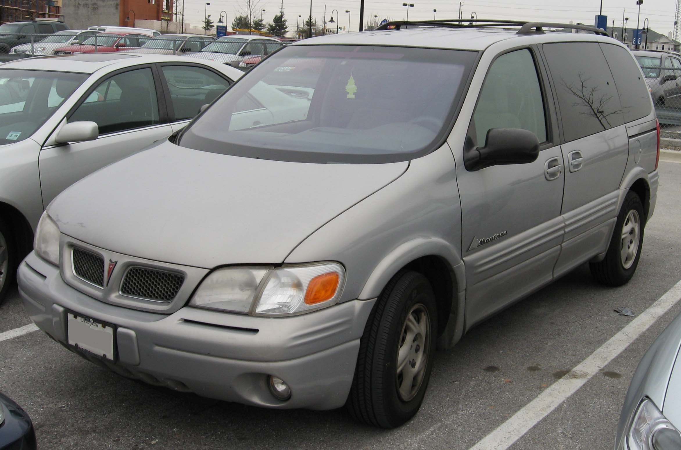 1999-2001 Pontiac Montana photographed in USA.